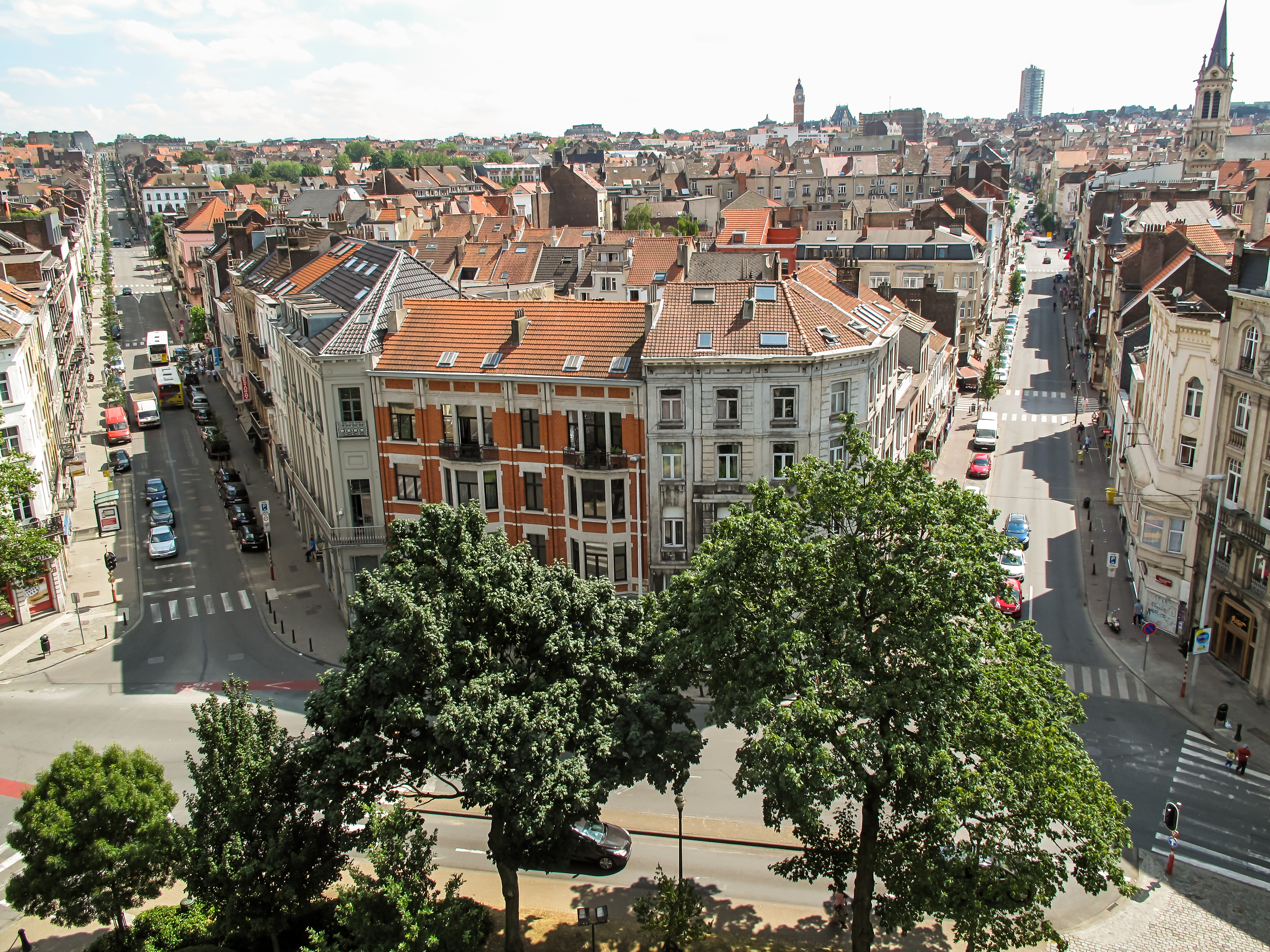 Brussels panorama